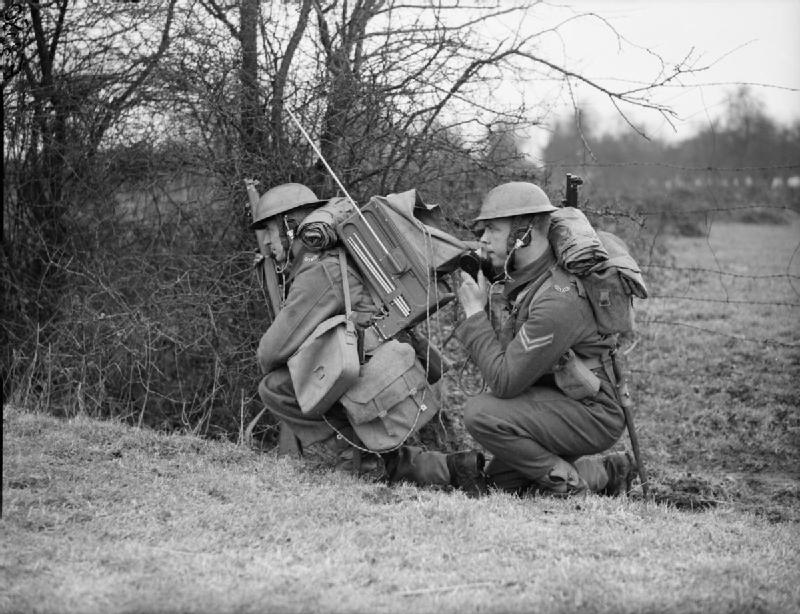 The British Army in France 1940 A No 18 wireless set on field trials with troops of 1st Battalion, Loyal Regiment, 1st Division, at Bourghelles, 12 March 1940.